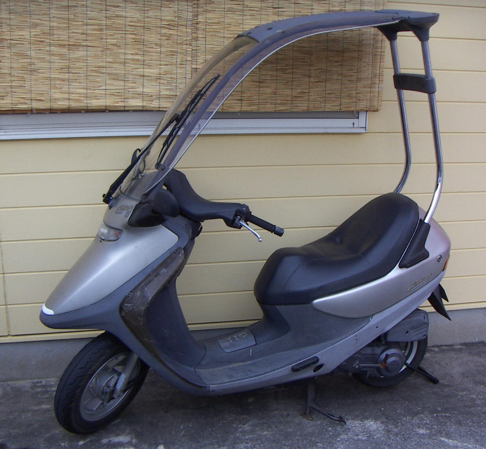 CABINA 90 lateral view. Japan.